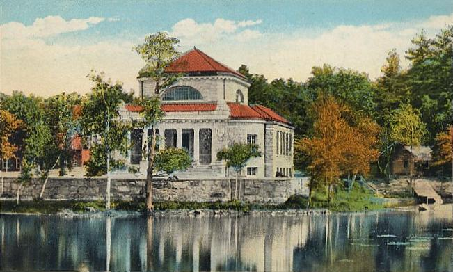 Sheldon Library, St. Paul's School, Concord, New Hampshire. Designed by Ernest Flagg, it was built in 1900-1901.